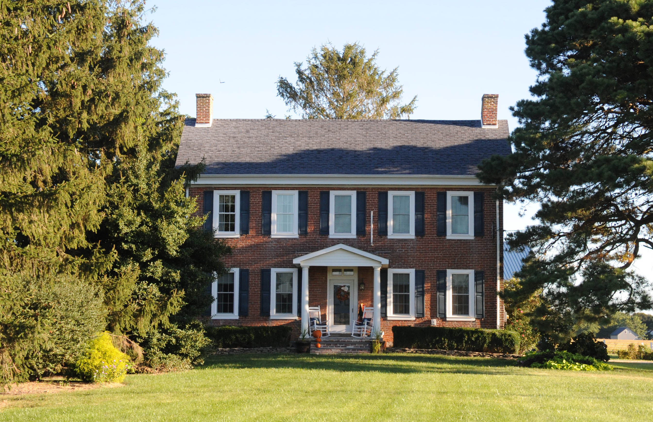 BUILT IN 1850 IN MIXED FEDERAL AND GREEK REVIVAL STYLES